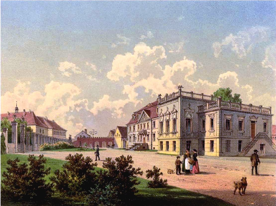 manor house, domain of Barby on Elbe, Germany (with extension wing from 1867/1868)